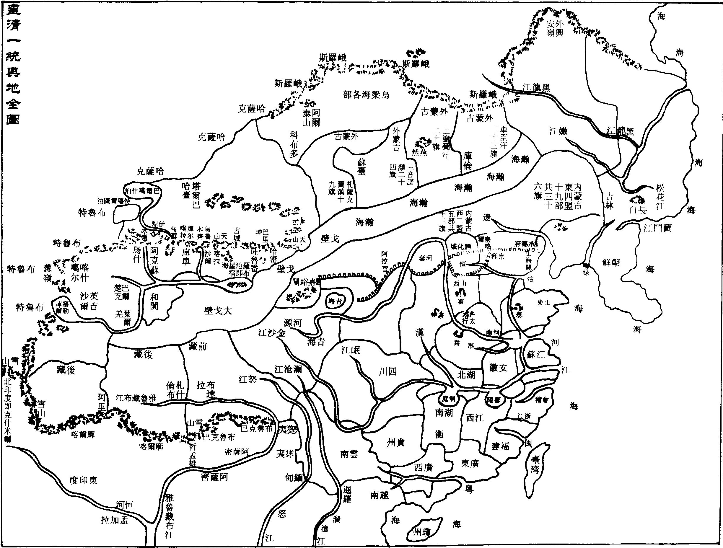 This map was scanned from a Ancient Chinese Book named as "瀛寰志略", the author is Chui Gai Yu（徐繼畬）, and he died at 1873.